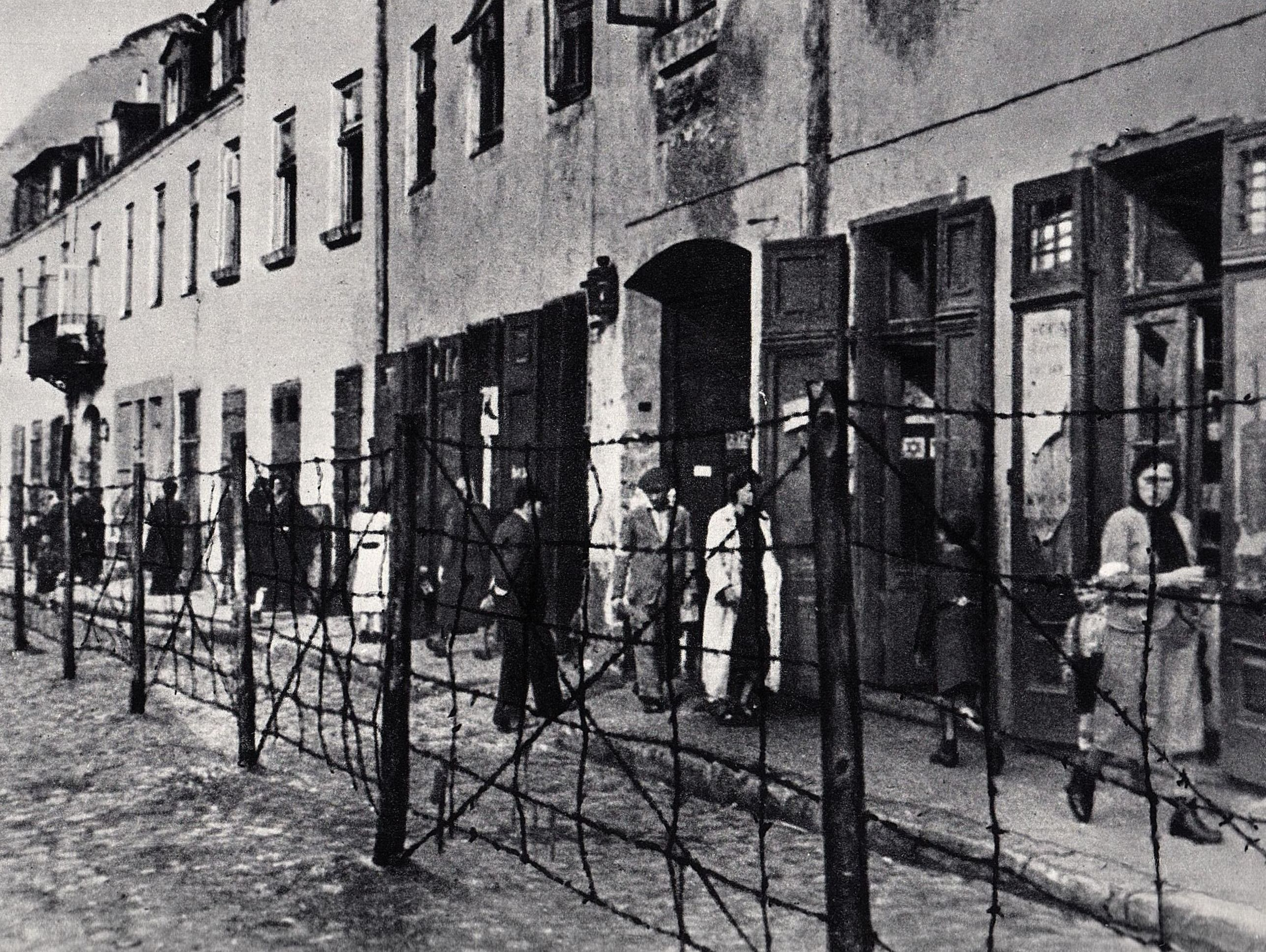 Barbed wire after the change of the Warsaw Ghetto border in the middle of 15 Krochmalna Street